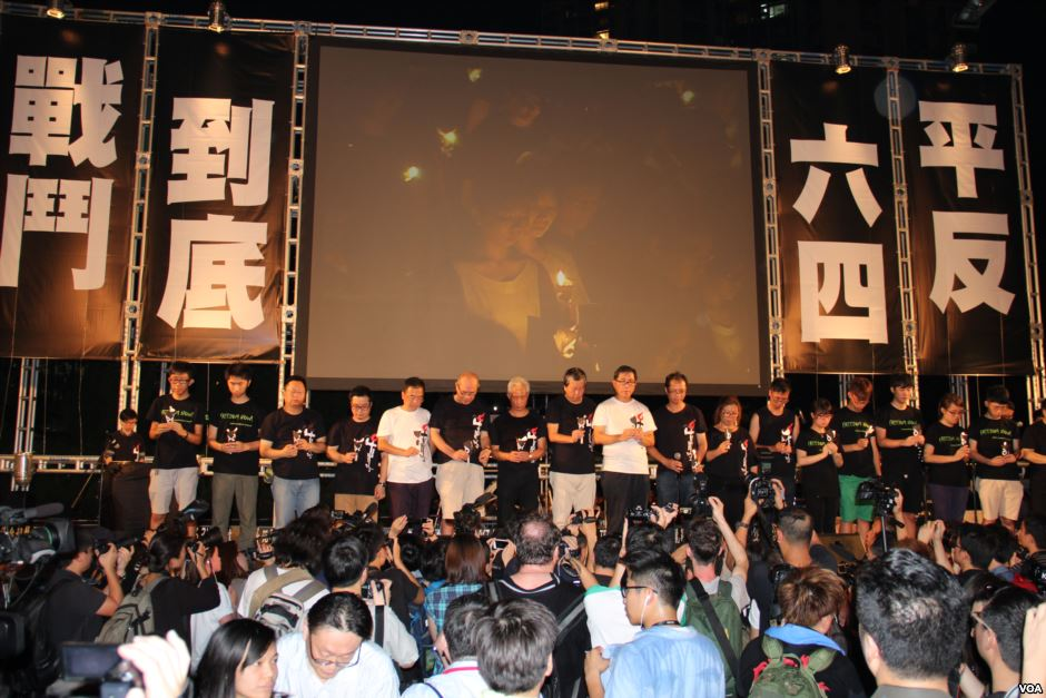 纪念六四25周年香港维园烛光晚会